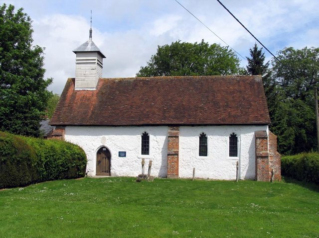 St Nicholas, Freefolk, Hants